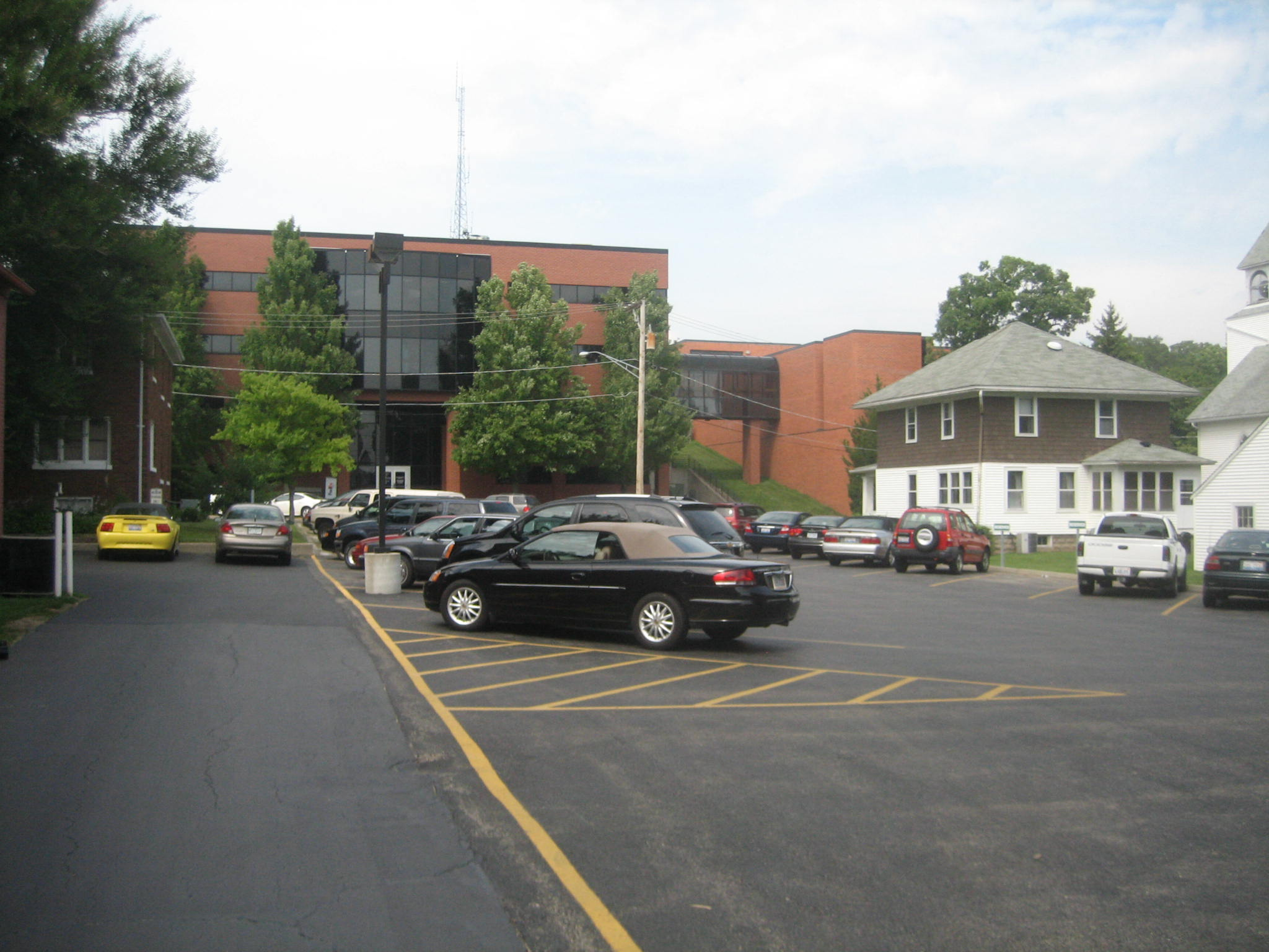 Whiteside County Courthouse, Morrison, Illinois, USA